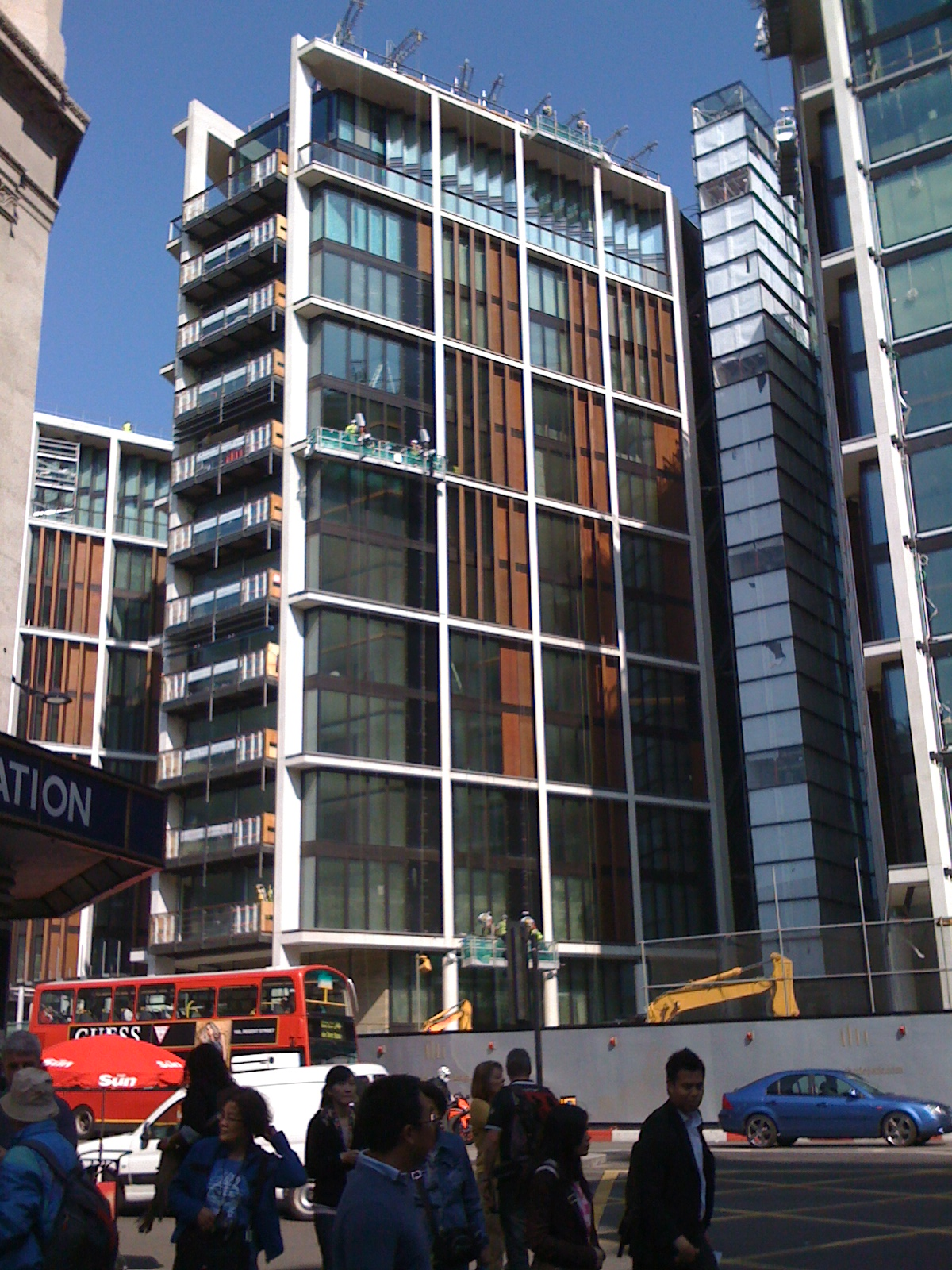 Photo of One Hyde Park in Knightsbridge, London under construction in May 2010